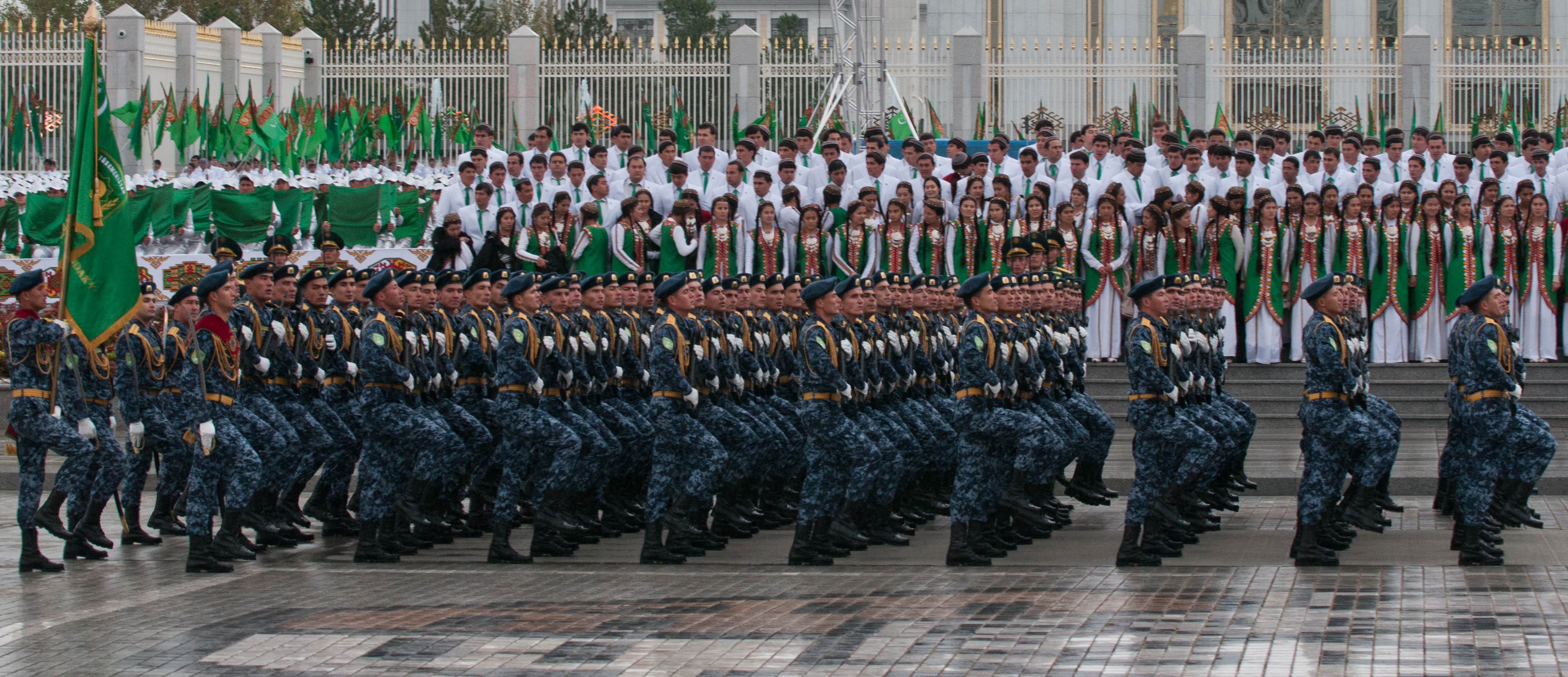 Celebrating the 20th year of independence in Turkmenistan